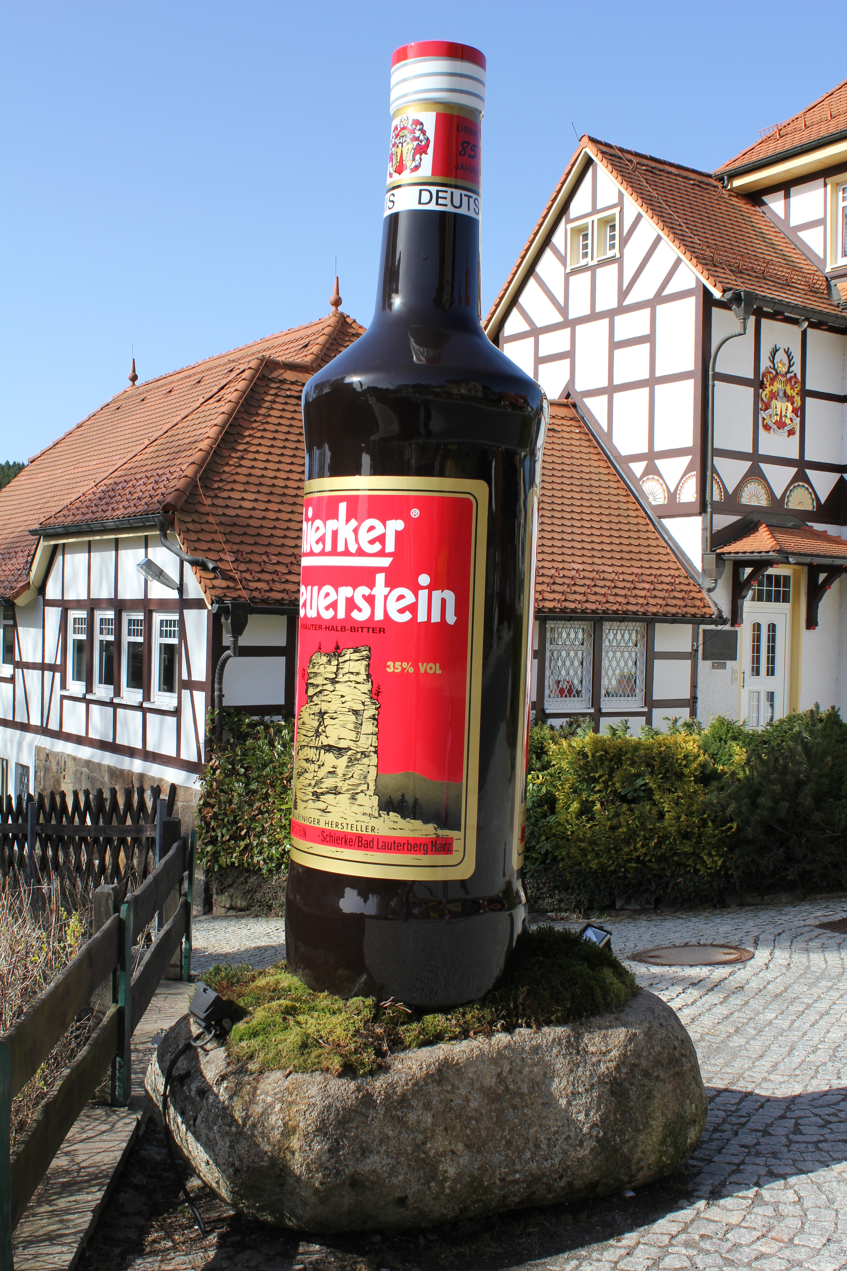 The bitters „Schierker Feuerstein“ from Schierke)